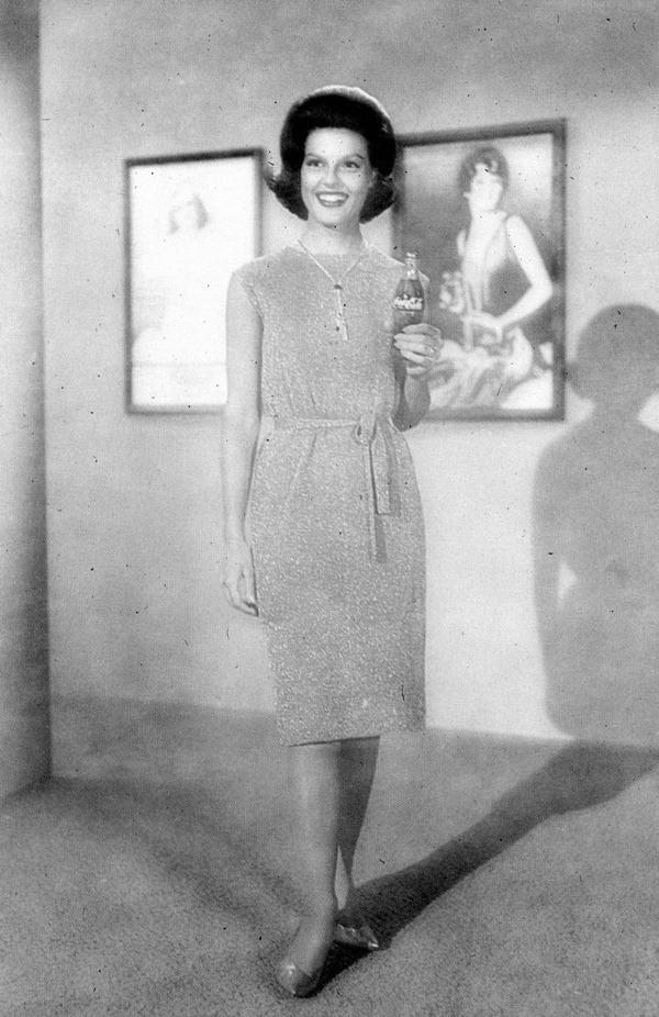 Anita Bryant holding a bottle of Coca-Cola.